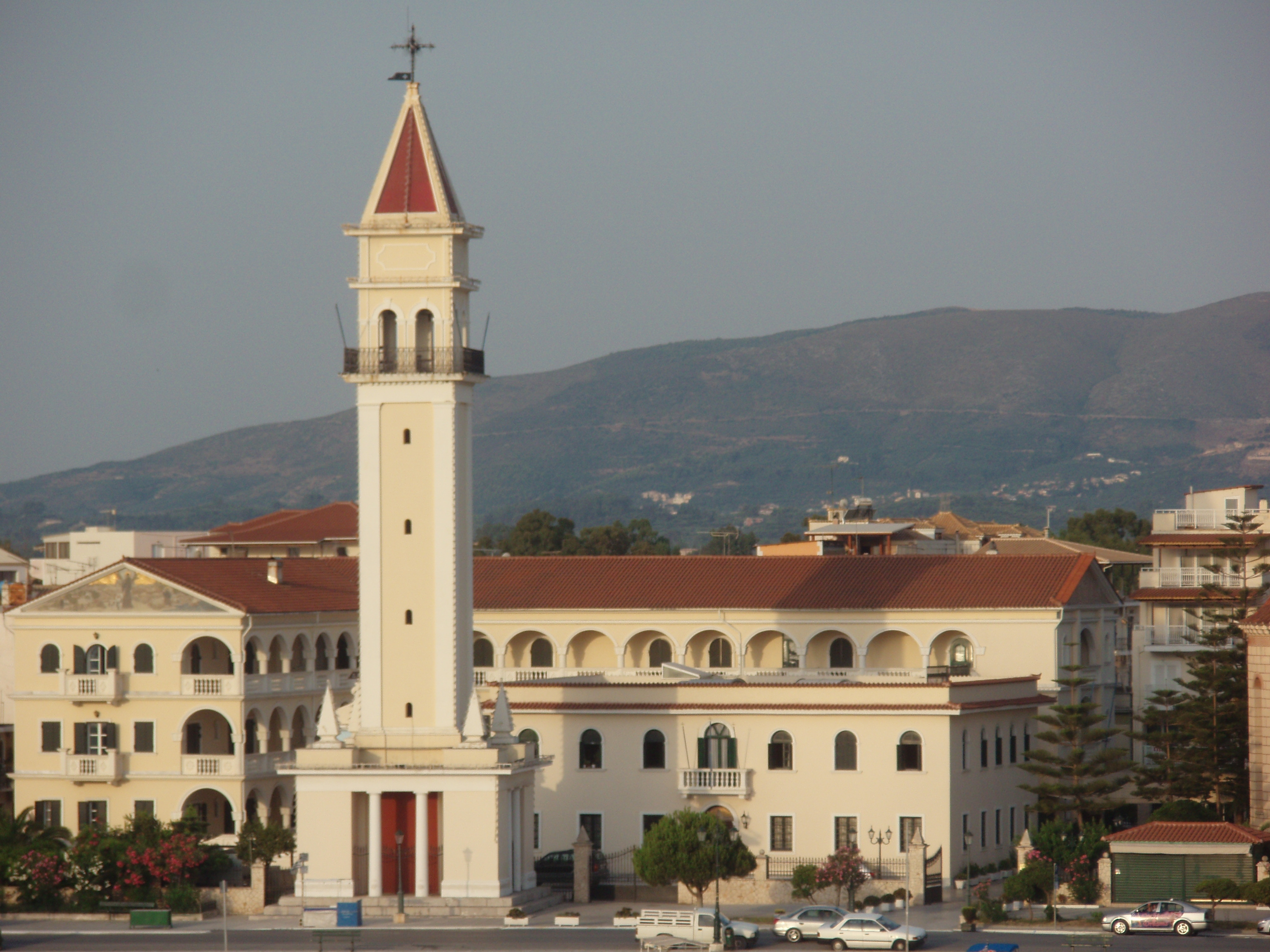 Belltower of Agios Dionysios Church in Zakynthos (city), Greece. Picture taken from departing ferry to Kyllini.